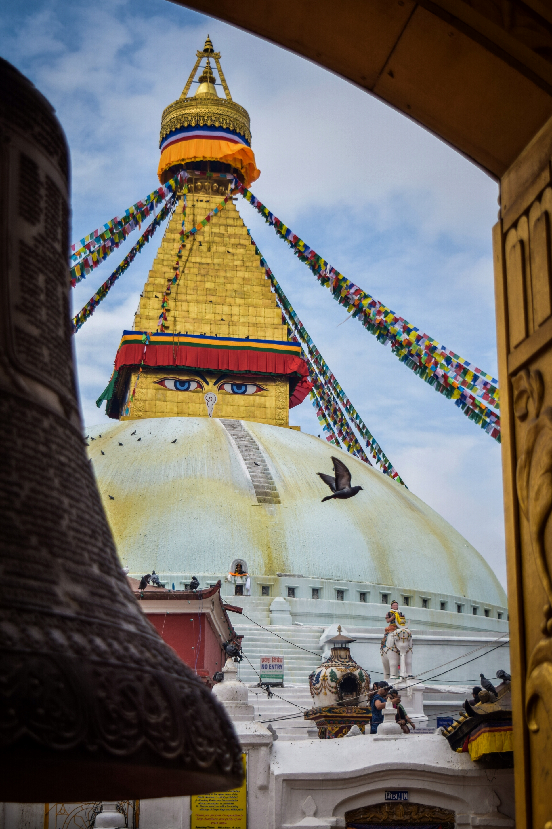 Framing Bouddhanath stupa. The eyes of the Bouddhanath stupa radiates peace all over the nation. This stupa is amongst the one listed in UNESCO WORLD HERITAGE site list.